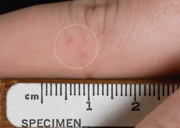 Wound inflicted by canine teeth of Eptesicus fuscus (big brown bat) while bat was being handled; picture taken same day as bite.